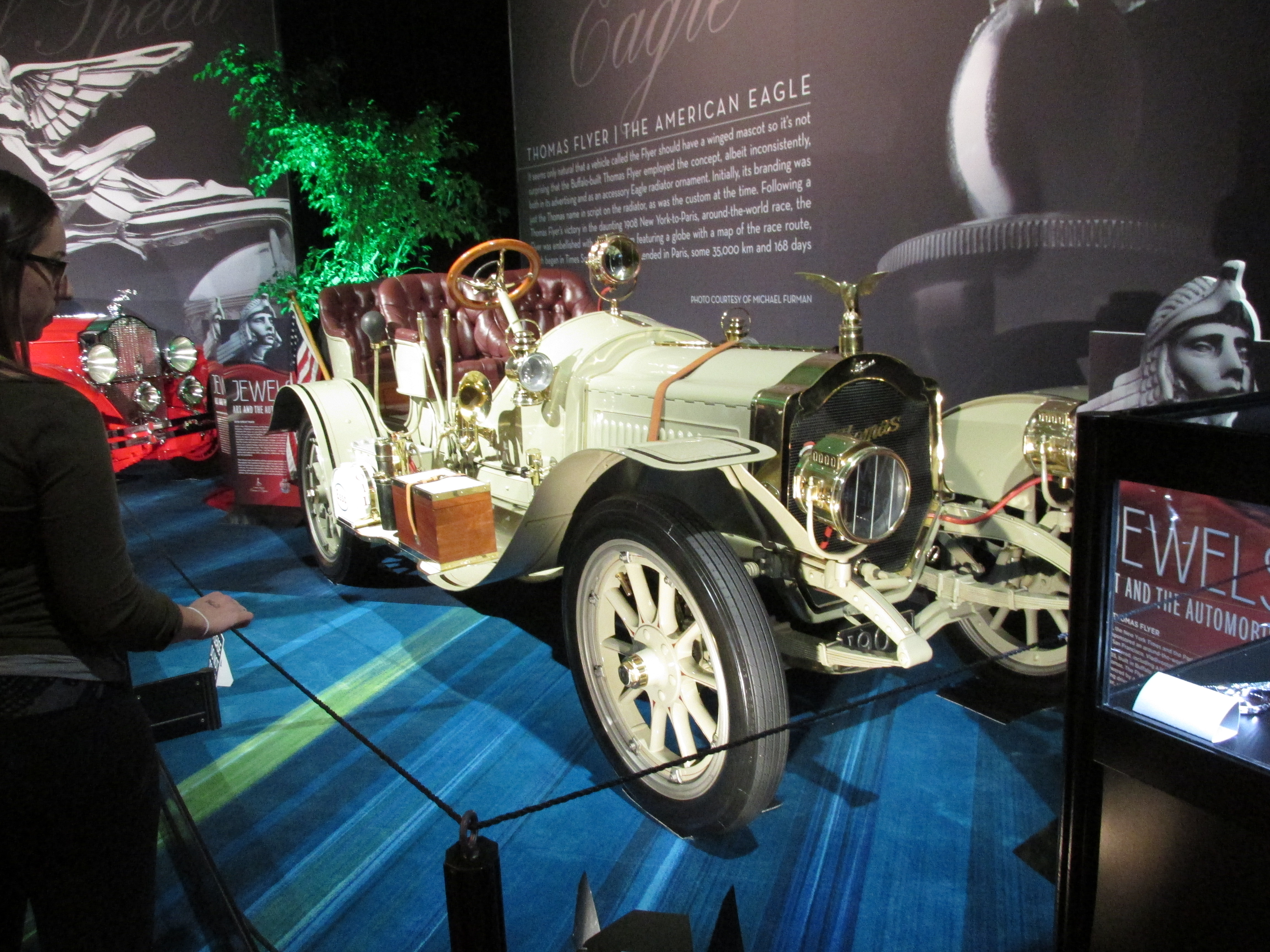 The 1907 Thomas Flyer on display at the Toronto Auto Show.